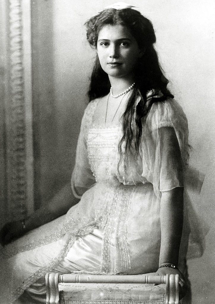 1914 formal photo of Grand Duchess Maria Nikolaevna of Russia